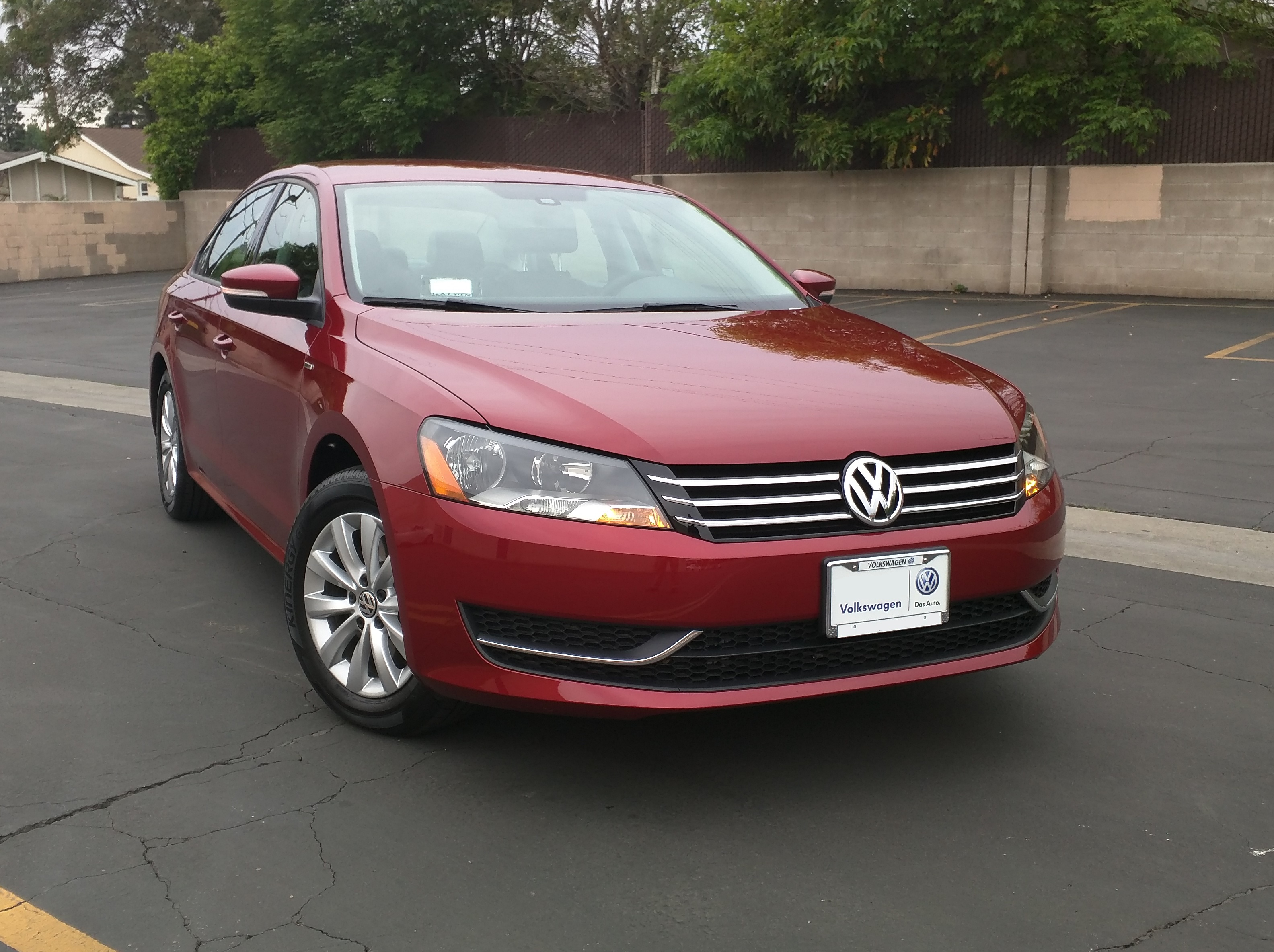 2015 Volkswagen Passat Wolfsburg sedan North American Variant